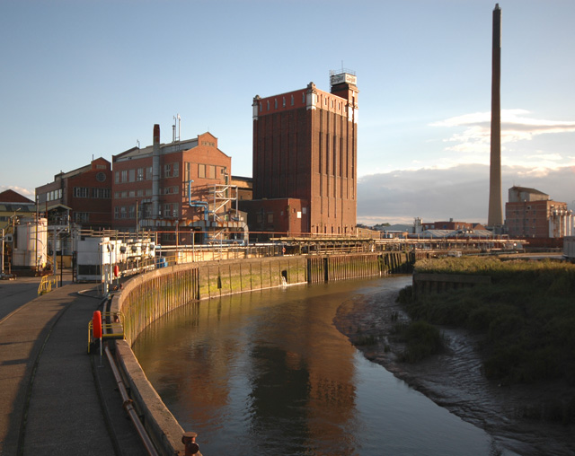 The River Hull at Stoneferry The Cargill oilseed processing plant is on the left; 'Reckitt's' chimney is on the right of the shot.